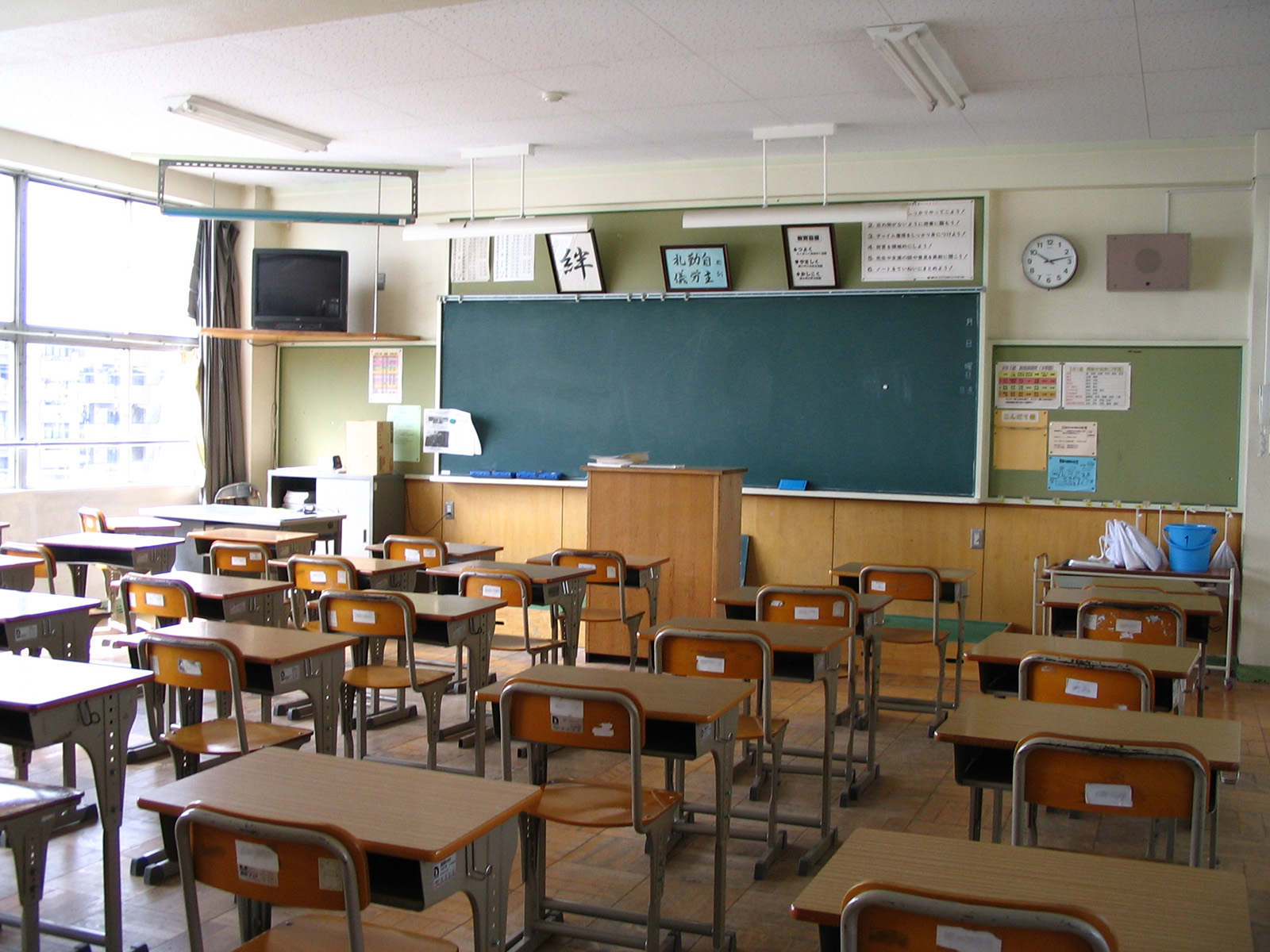 Classroom in a junior high school in Japan. The uploader has removed all identifiable personal information from the image. The school shown in this photo has moved since the photo was taken.